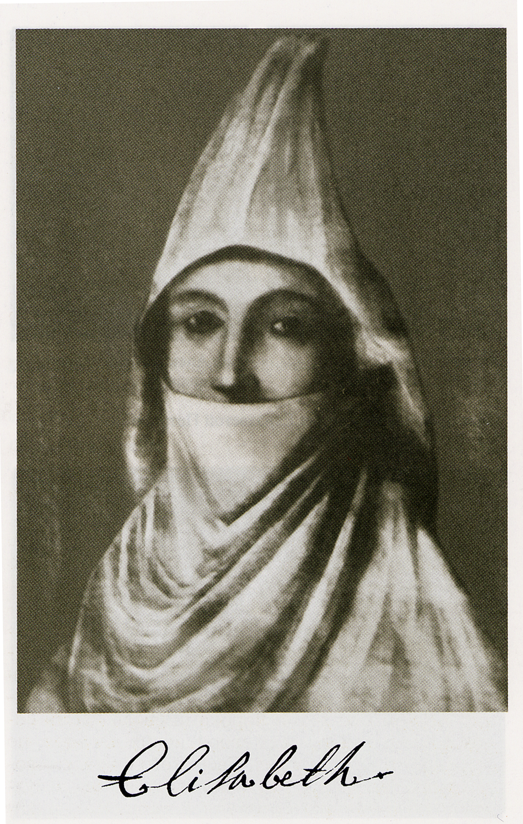 Portrait of an unknown woman from the collection of Pavel Simson. The oil has been lost